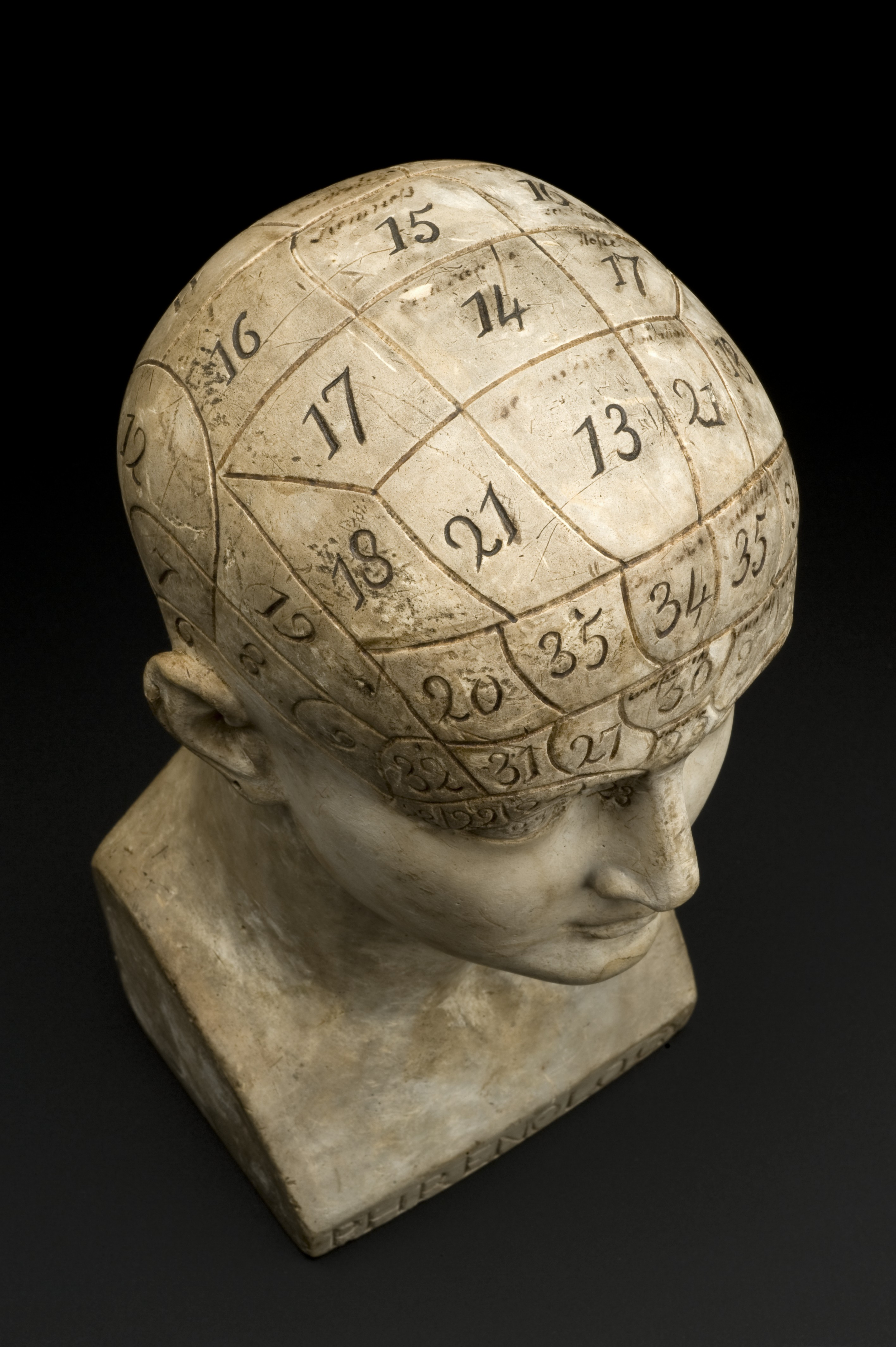 Earthenware phrenological bust, areas are marked off with an impressed line, by J. De Ville, London, 1821. High view point, black background. Wellcome Images